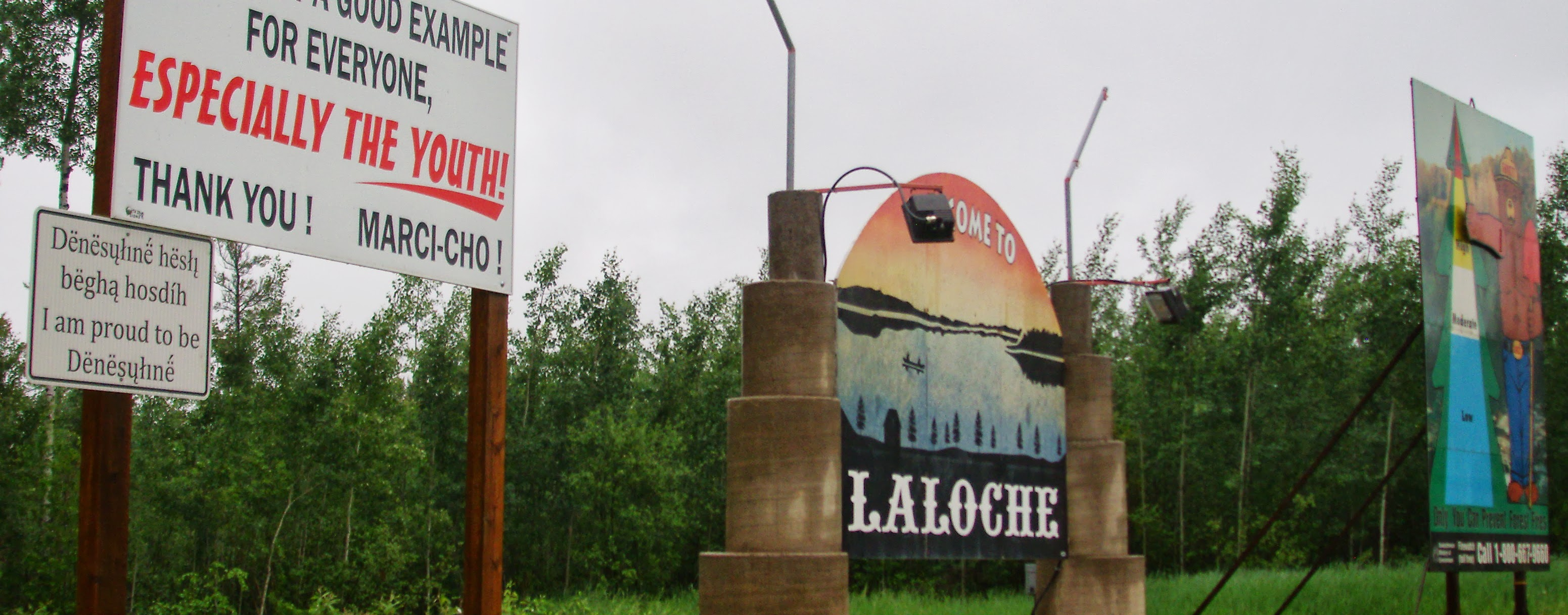 Welcome signs off Highway 155 by the La Loche Airport in La Loche, Saskatchewan.